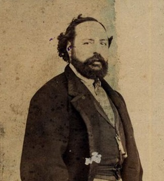 Photograph of Italian playwright Michele Cuciniello (1823–1889)